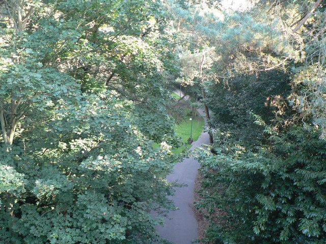 Westbourne: looking down on Alum Chine The view south from 972212, the path heading for the sea.